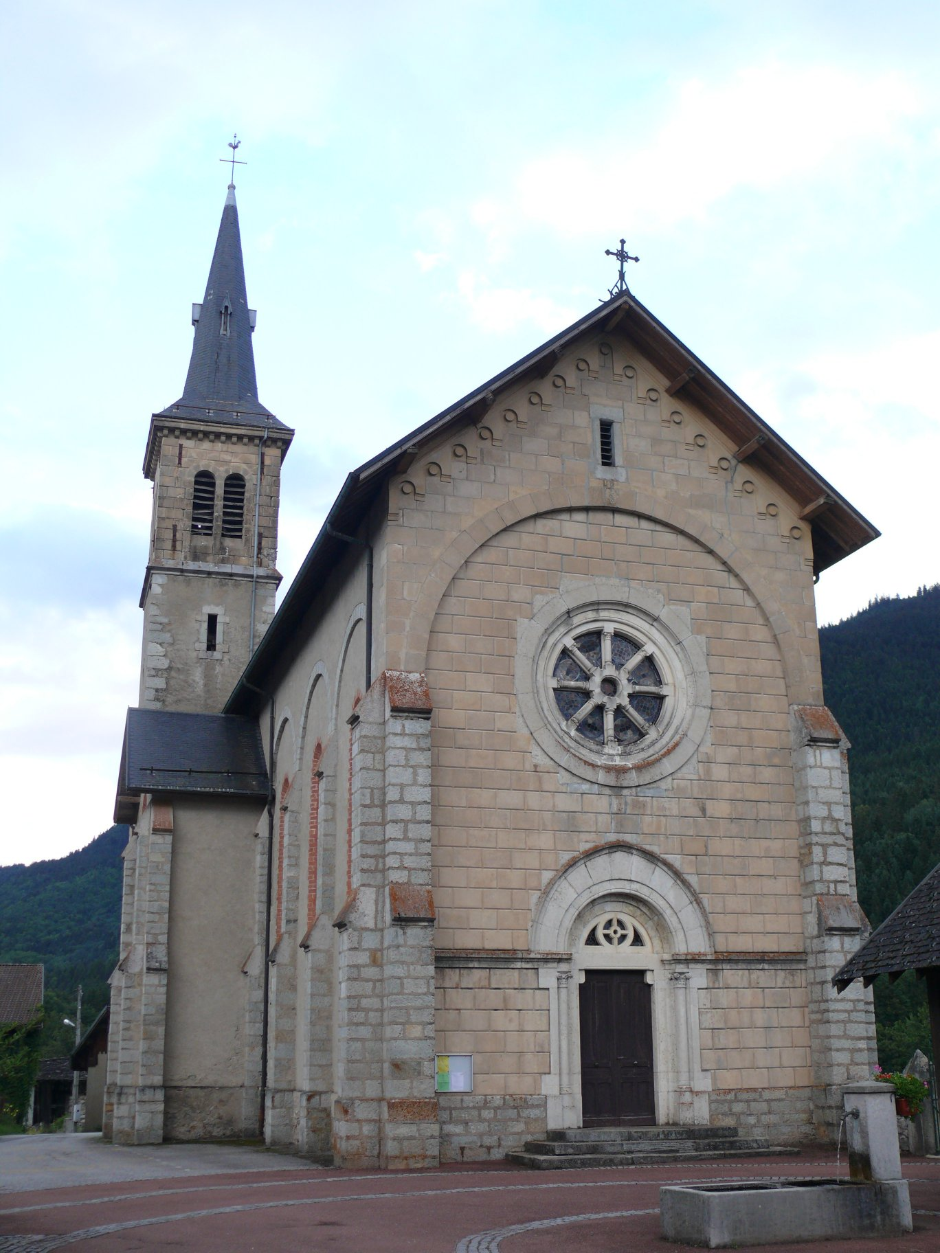 Saint-Thecle's church of Bourget-en-Huile (Savoie, Rhône-Alpes, France).